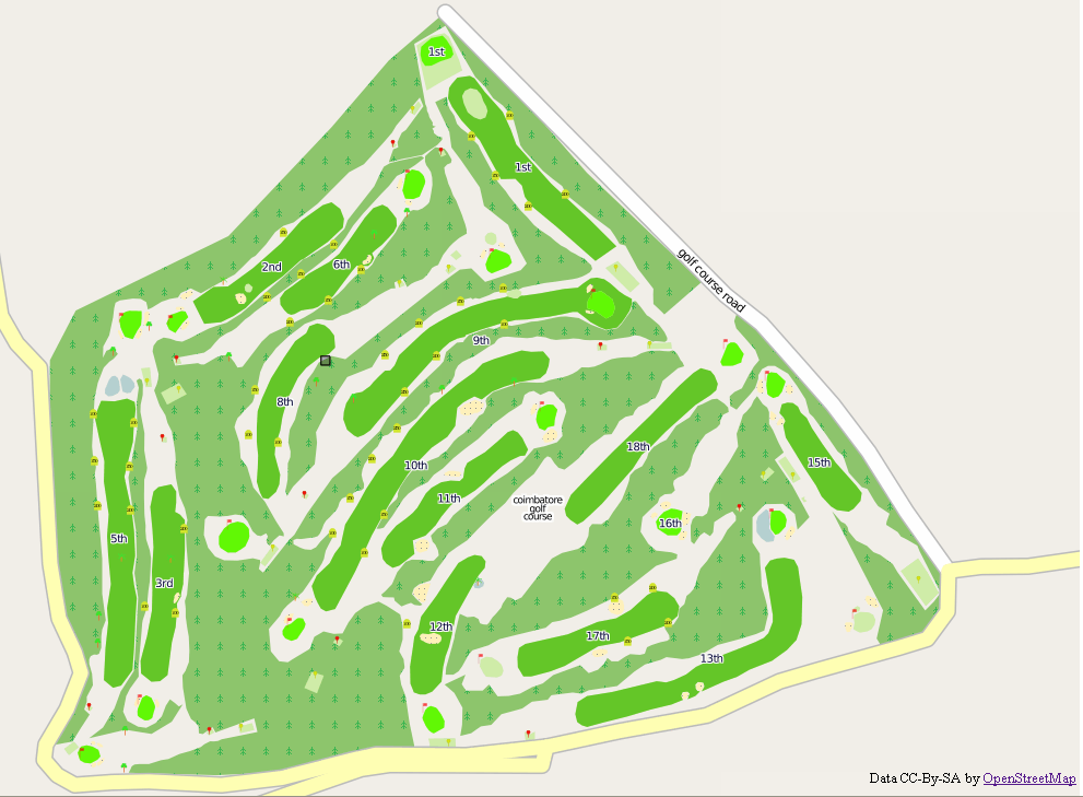 This map may be incomplete, and may contain errors. Don't rely solely on it for navigation.